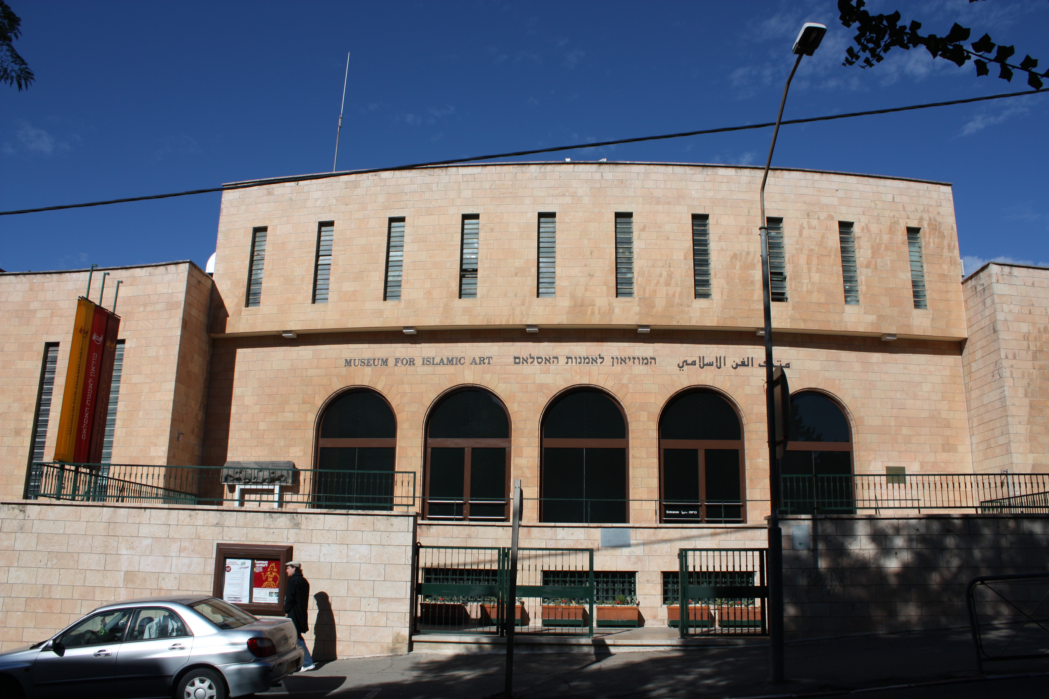 L. A. Mayer Institute for Islamic Art, Jerusalem, Israel